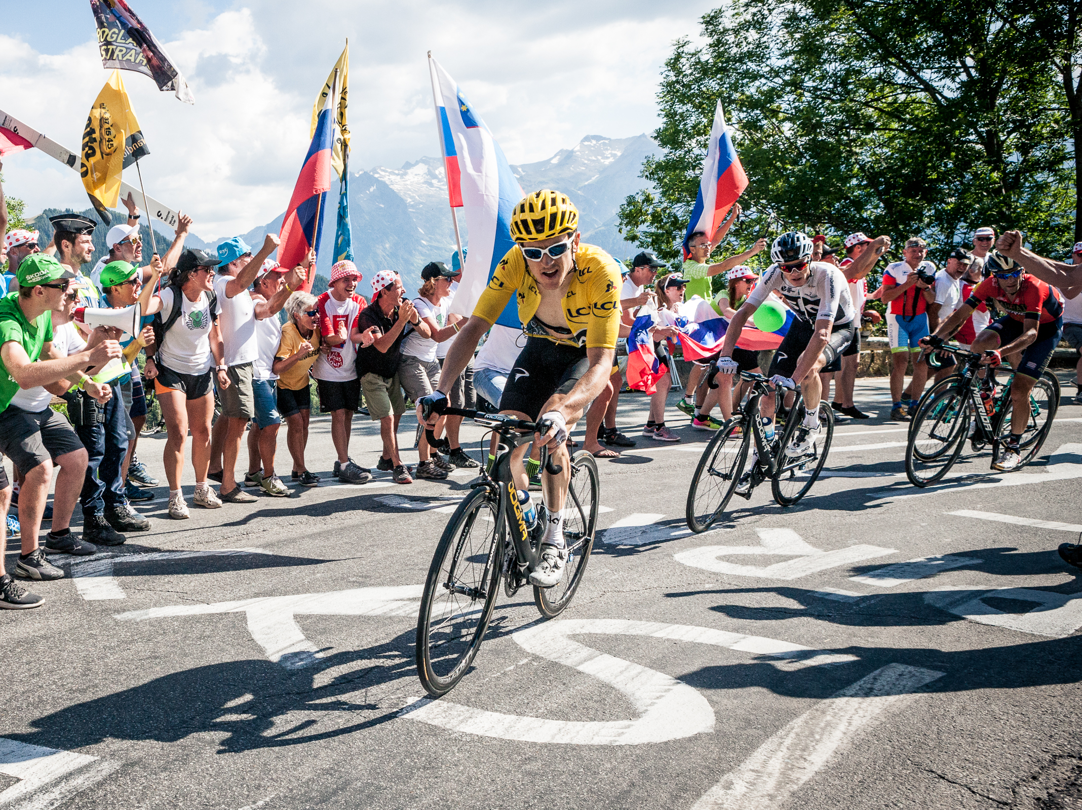 Geraint Thomas on the climb to Alpe d'Huez at the Tour de France 2018, wearing the yellow leader's jersey